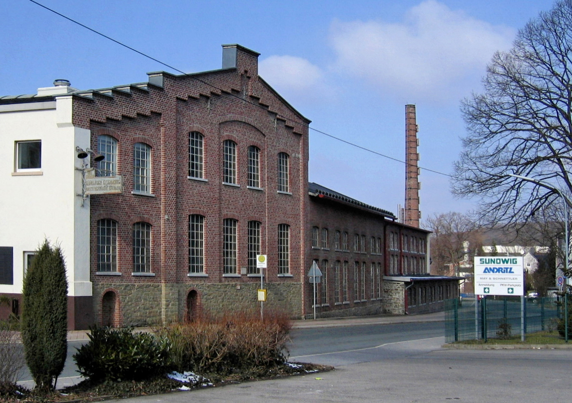 Factory building of Sundwig GmbH, Hemer